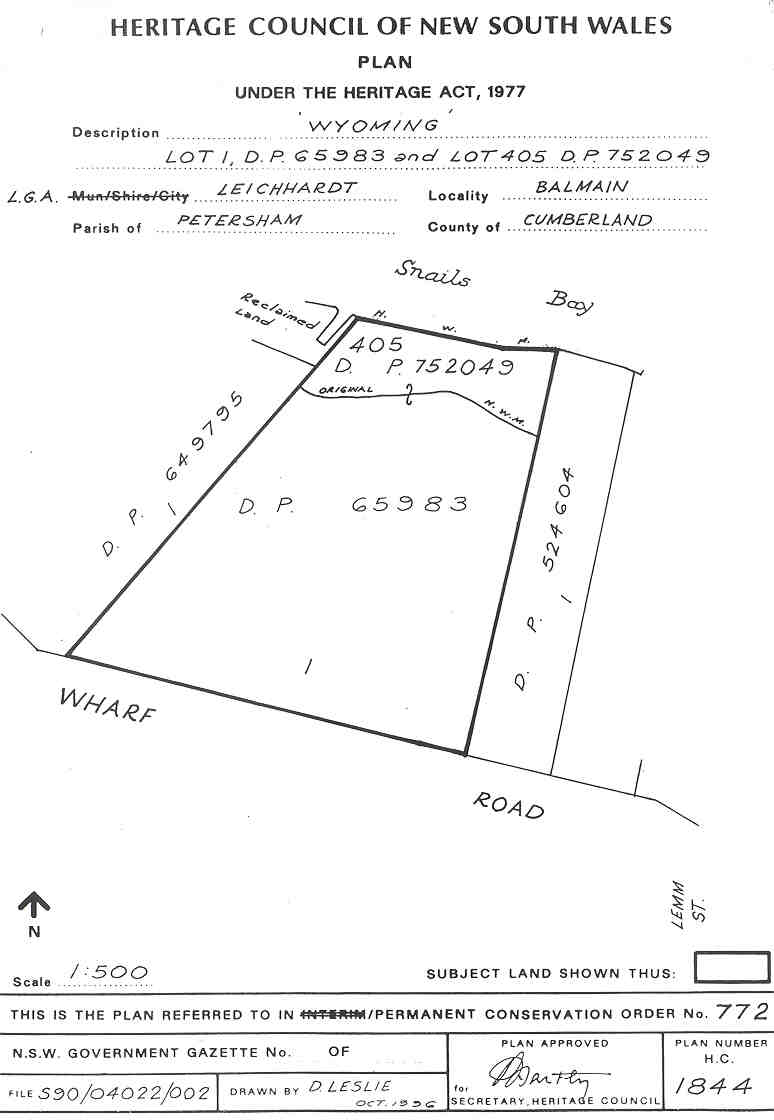 Wyoming, Birchgrove: PCO Plan Number 772